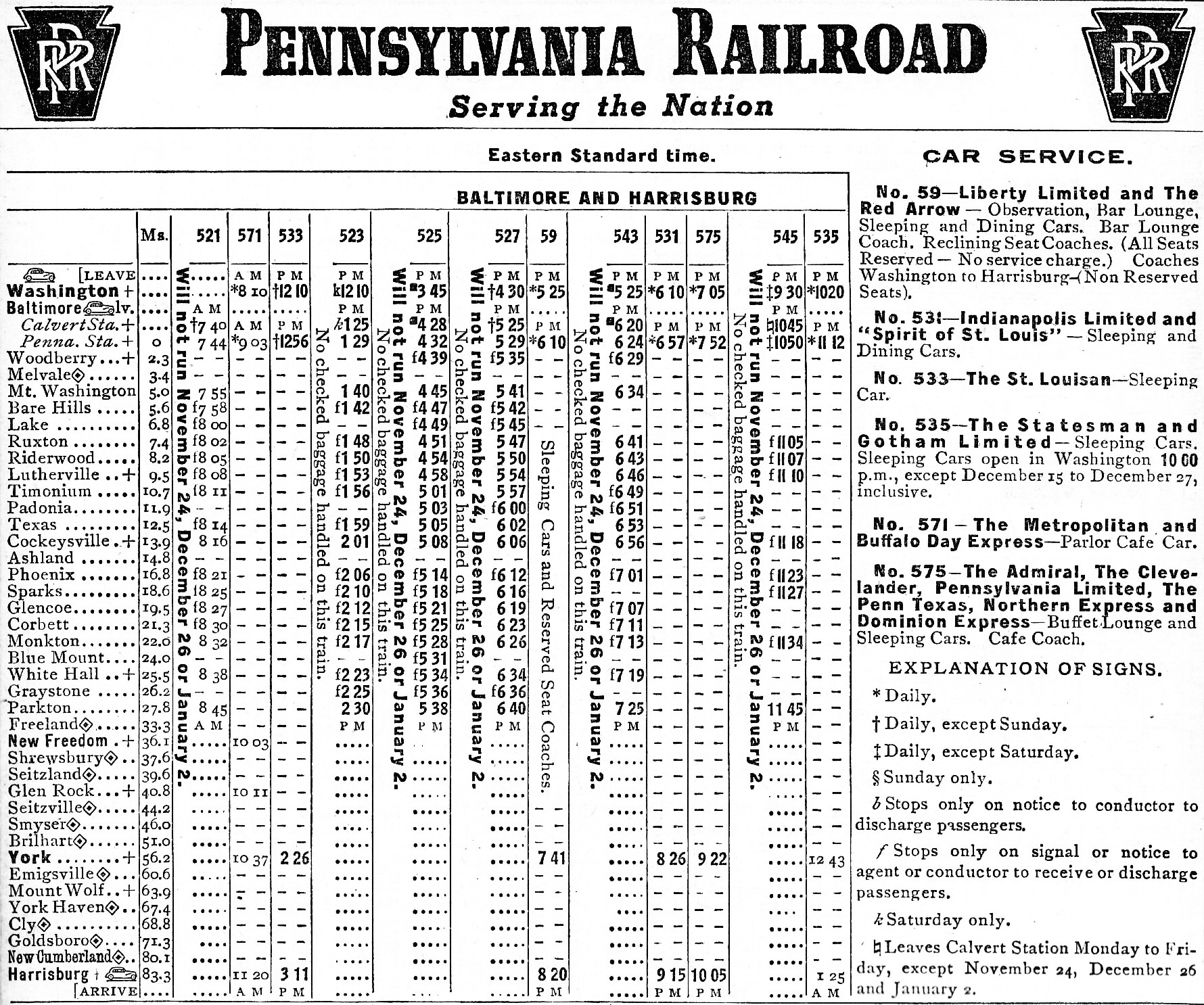 Passenger train schedule of the Pennsylvania Railroad, on its Northern Central Railway line between Baltimore and Harrisburg in 1955, showing both local commuter and long distance trains on the route